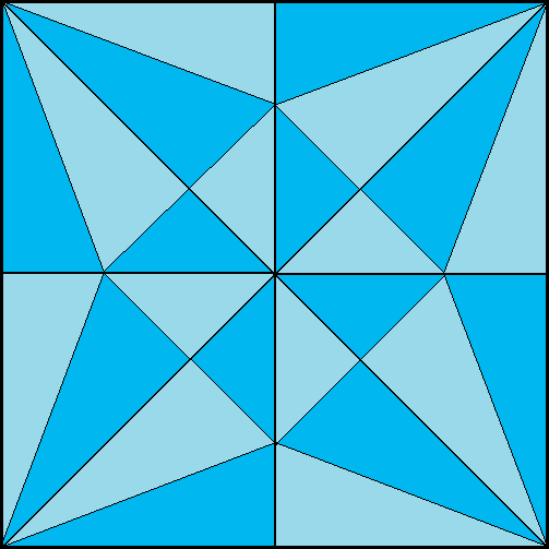 Created to help explain Robert Lang's first rule of origami crease patterns.